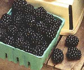 Blackberry - cut from File:Berries_(USDA_ARS).jpg